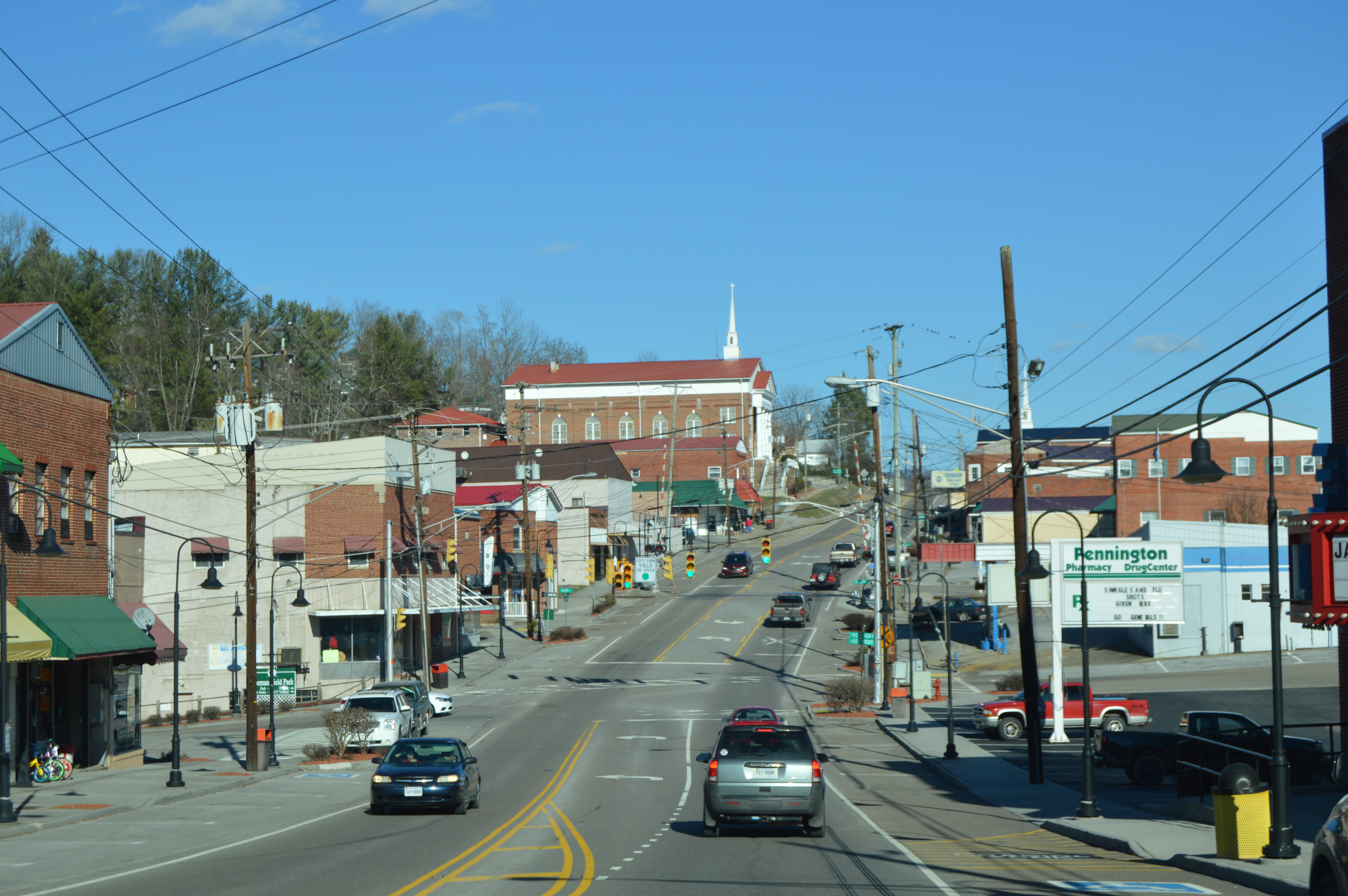 Looking east on Morgan Avenue (U.S. Route 58 Alternate) in downtown Pennington Gap, Virginia, United States. The nearby traffic lights sit at the Kentucky Street intersection.